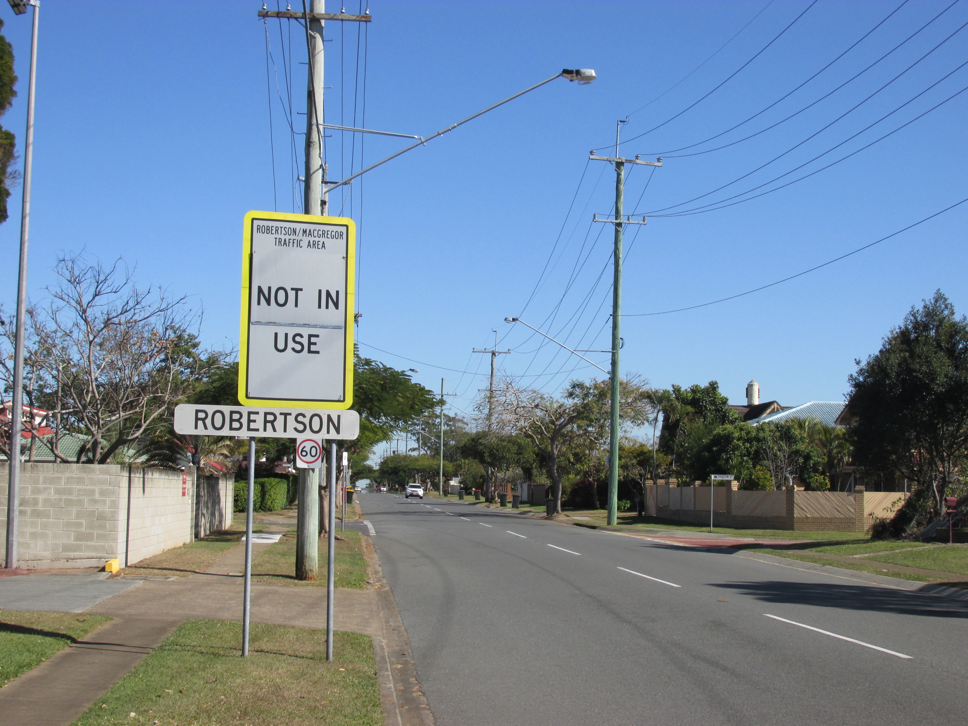 Suburb welcome sign in Musgrave Road, Robertson, Queensland. Also depicted is a sign for the Robertson/Macgregor Traffic Area, used to restrict parking in the area during major sports matches and events at Queensland Sport and Athletics Centre.